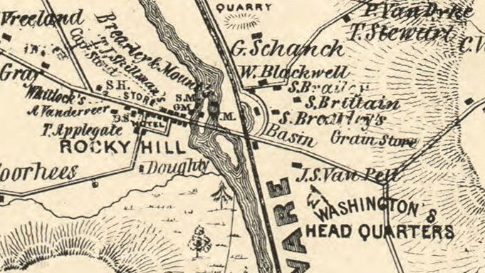 General-content county map also showing rural buildings and occupants' names. Relief shown by hachures. Prime meridian: Washington D.C. "Entered according to act of Congress by Robert P. Smith A.D. 1850 in the ... eastern District of Pennsylvania." LC copy imperfect: Fold-lined, mounted on cloth backing. LC Land ownership maps, 464 Includes text, inset "Plan of Somerville", statistical table, key to abbreviations, illustrations of prominent buildings, and embellished map border. Available also through the Library of Congress Web site as a raster image. Detail This map detail shows the area around Rocky Hill, New Jersey, and in particular, the location of Washington's Headquarters at Rockingham in 1783. The house is shown as owned by J.S. Van Pelt in 1850.